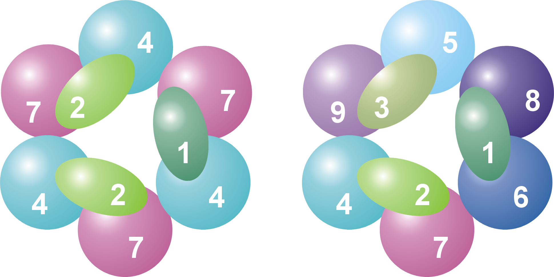 Schematic drawing of the Exosome complex, a multiprotein complex involved in RNA degradation. The drawing on the left is a schematic of the Archaebacterial exosome, the drawing on the right is of the eukaryotic exosome complex.